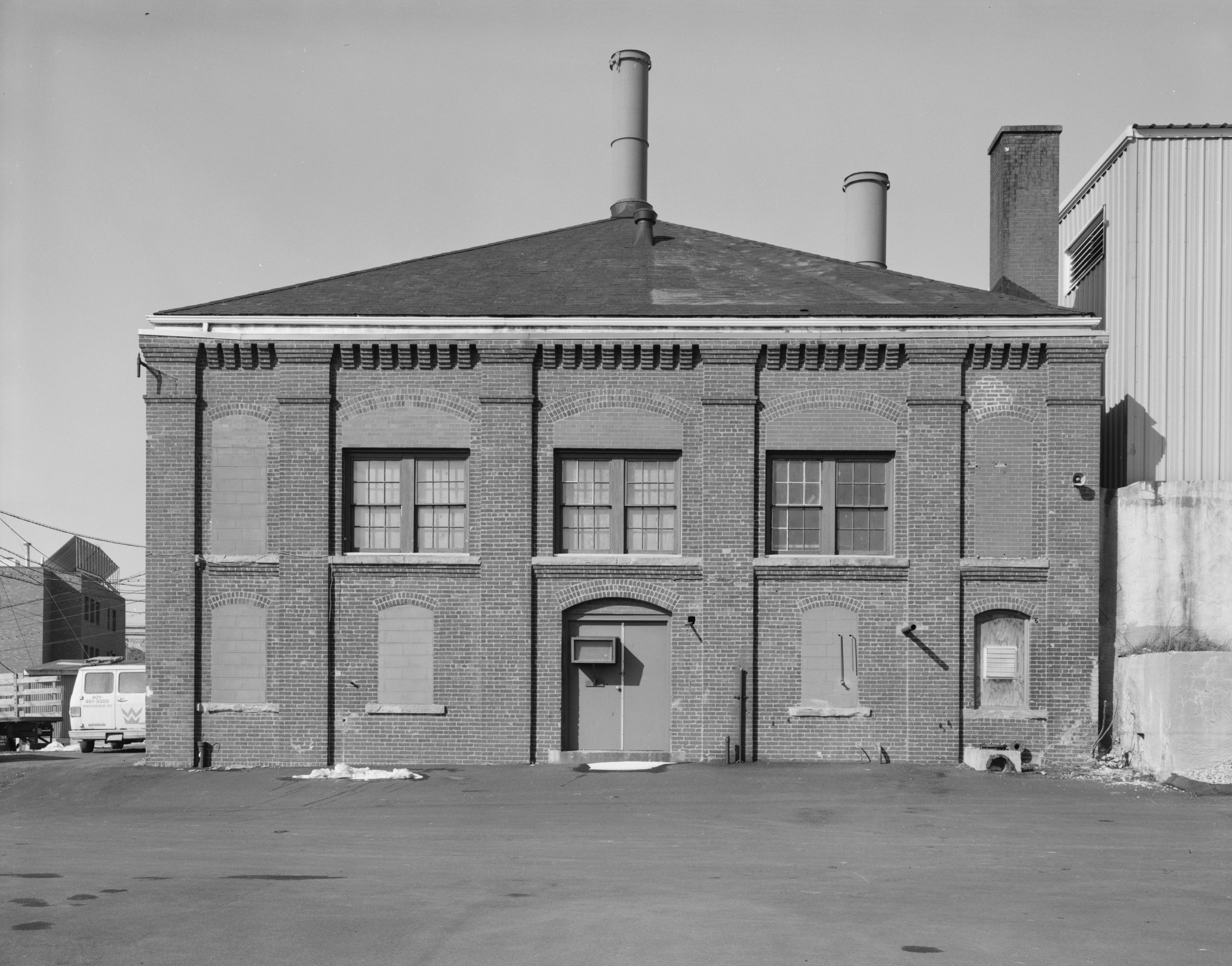 Providence Sewage Treatment System, Fields Point Plant, Sludge Press House, Ernest Street, Providence, Providence County, RI